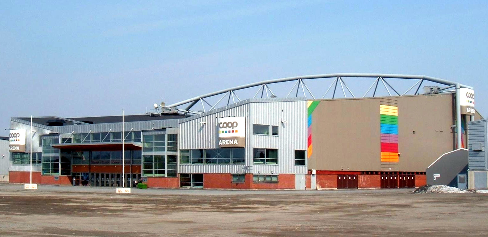 Coop Arena in Luleå, Sweden